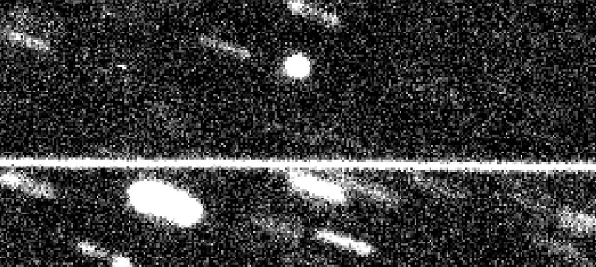 The top panel shows a composite image of the Kuiper Belt Object 1996 TO66 (round image at the center), totalling 4 hours of exposure with the EMMI multi-mode instrument at the 3.6-m New Technology Telescope (NTT) at La Silla. During the exposure, the object moved with respect to the background stars; this motion was compensated for and the KBO therefore appears as a point, while the images of background stars are trailed. The bright, nearly horizontal line that crosses the entire field is the light trail left by a geostationary satellite in orbit around the Earth, that crossed the field of view during one of the exposures. The lower panel is the composite "light-curve" of 1996 TO66, showing its brightness ("red magnitude") variations with time (in hours). The dots and the corresponding "error bars" represent the actual measurements from several nights and their uncertainties, while the solid line is a mathematic fit through these points. It was used to determine the rotation period of 1996 TO66 as about 6 hours and 15 minutes.